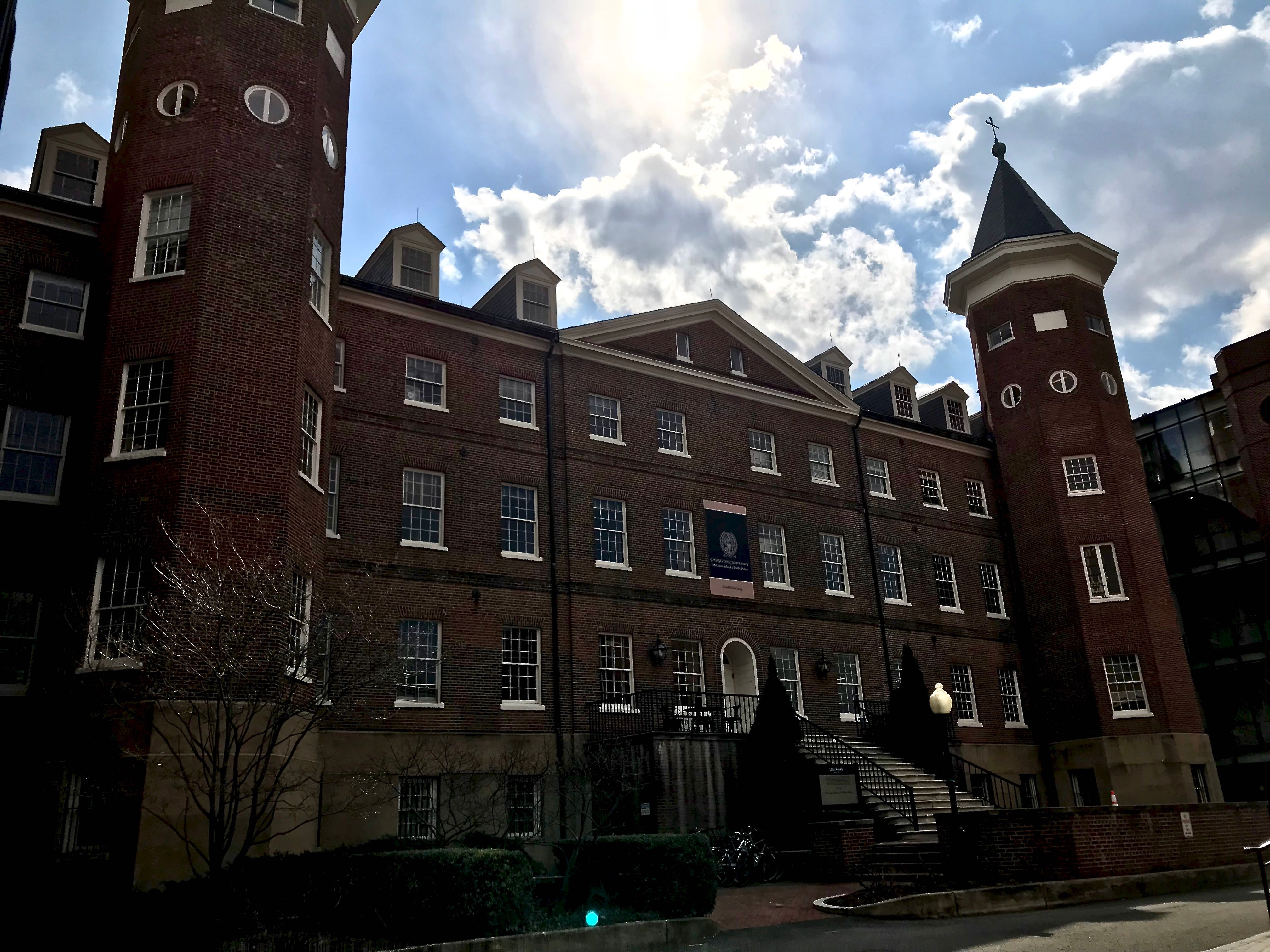 Old North Hall on the main campus of Georgetown University in Washington, D.C.